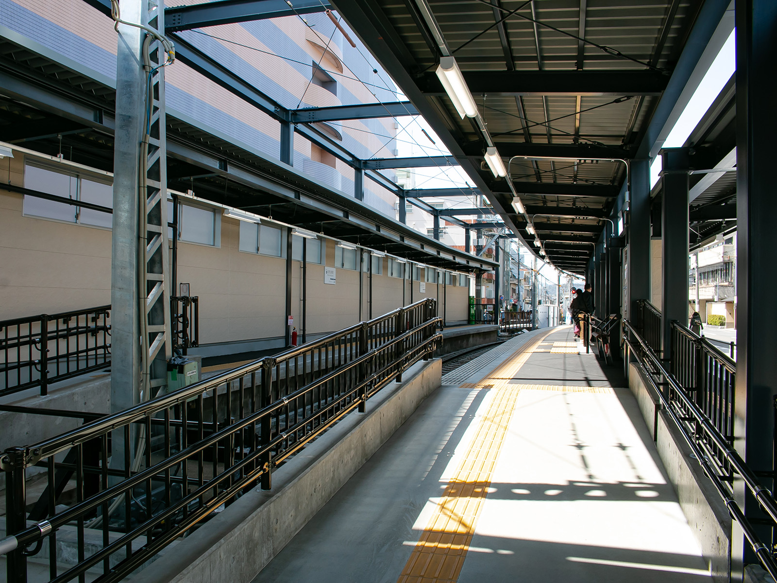 Kitano-Hakubaichō Station(New Platform)